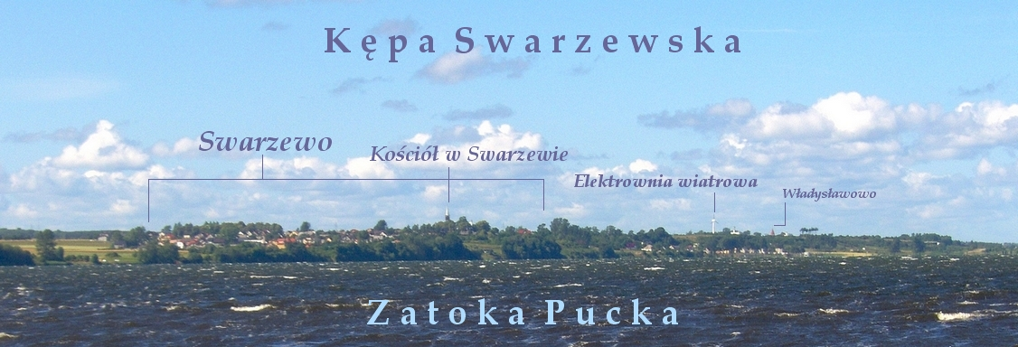 Hillock of Swarzewo (pl: Kępa Swarzewska) seen from Puck